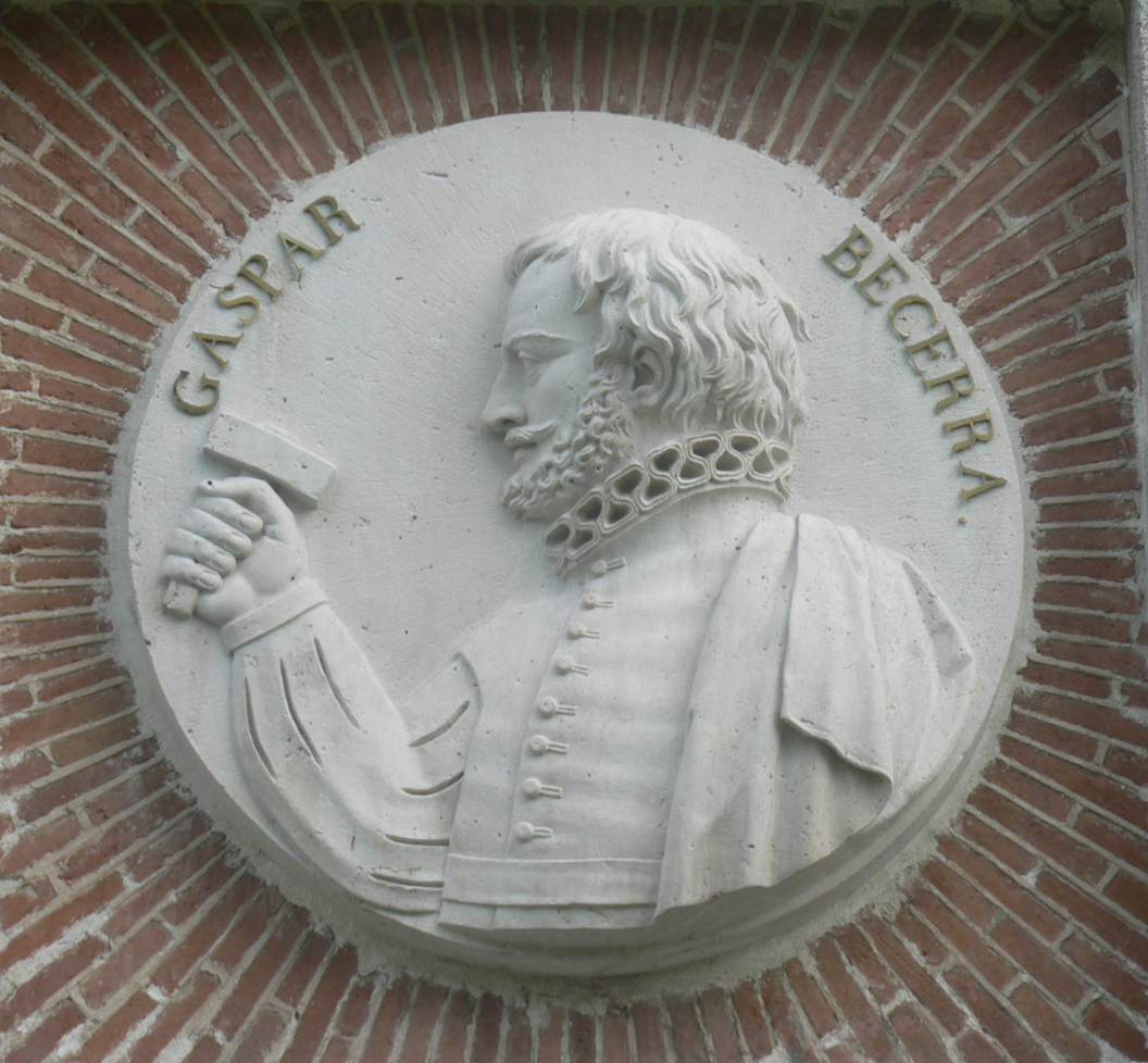 The painter and Spanish sculptor Gaspar Becerra (Baeza, 1520 - Madrid, 1570). Medallion inlaid in the facade of the Museum of the Prado, Madrid.